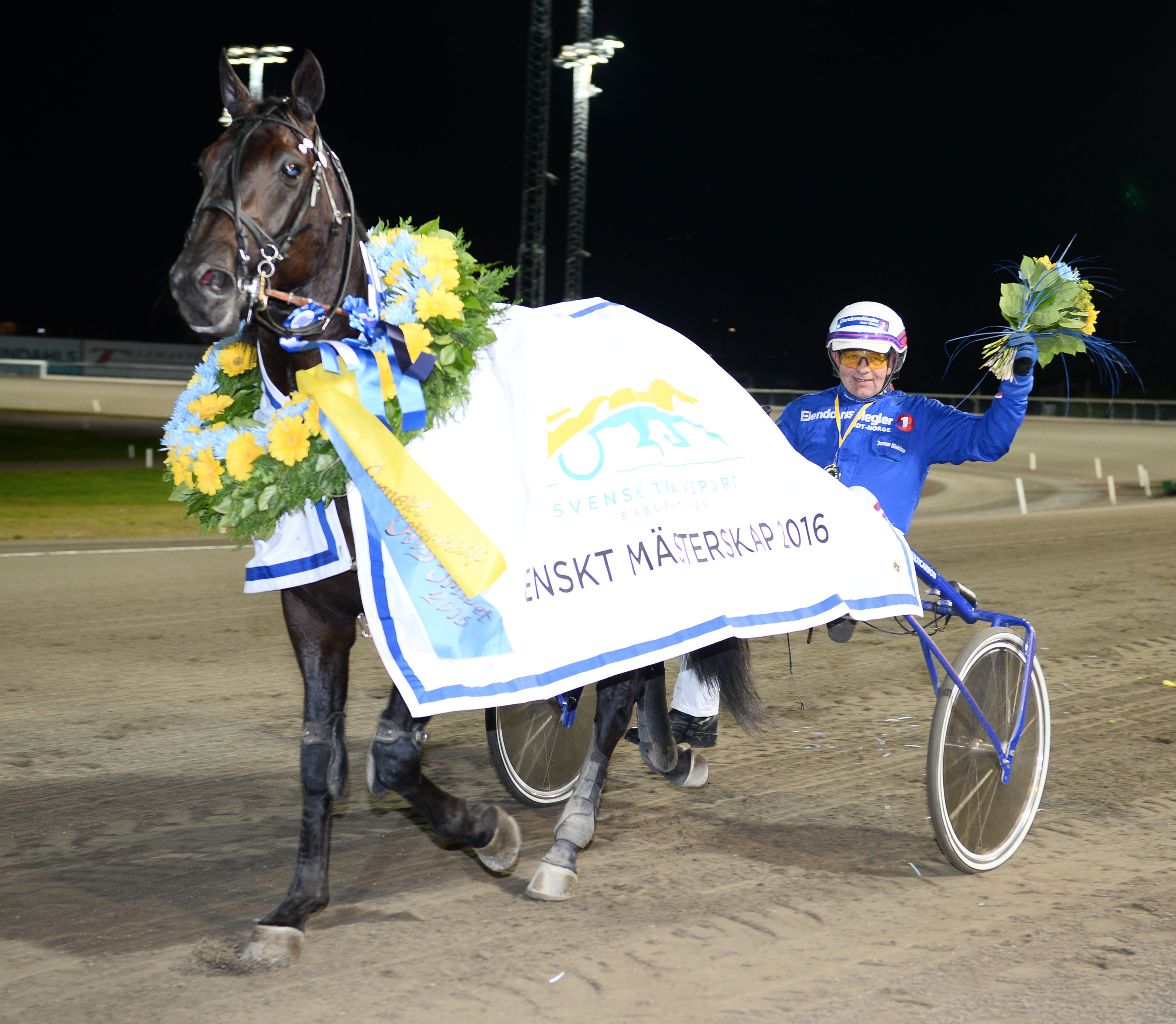 Ivar Sånna and driver Jomar Blekkan after their victory in "Svenskt Mästerskap" at Åbytravet, Sweden, 2016-10-15.